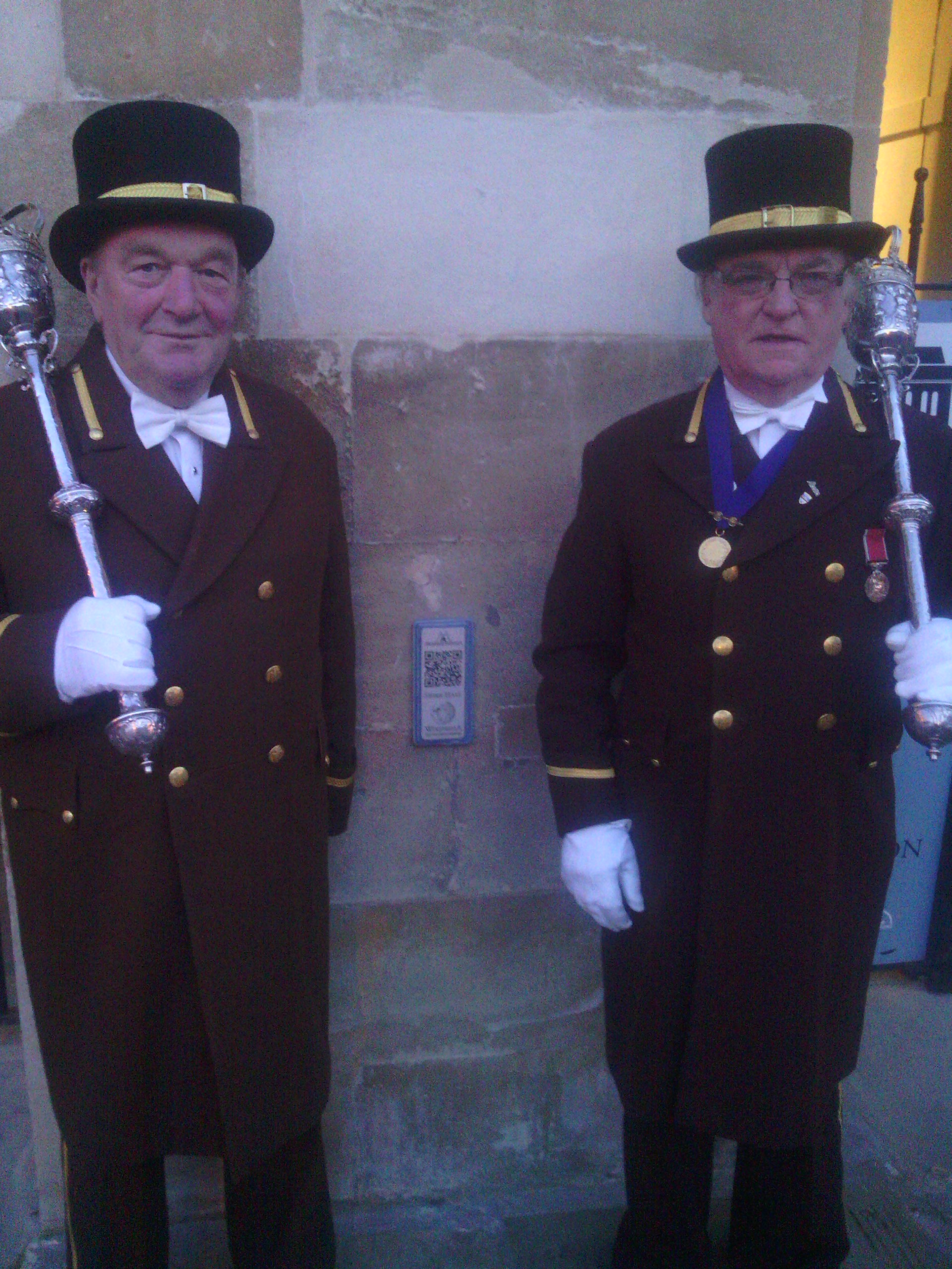 Monmouthpedia Mace Men outside the Shire Hall